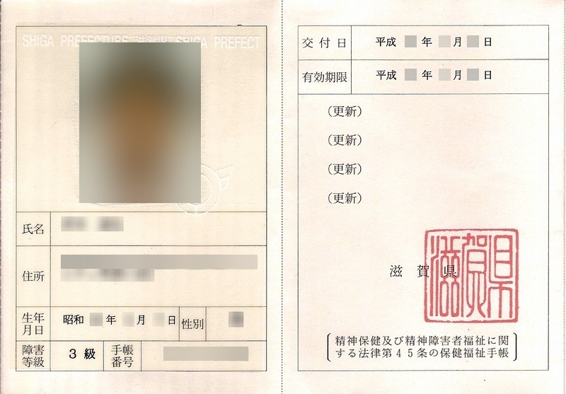 the mental patient health welfare notebook in Japan